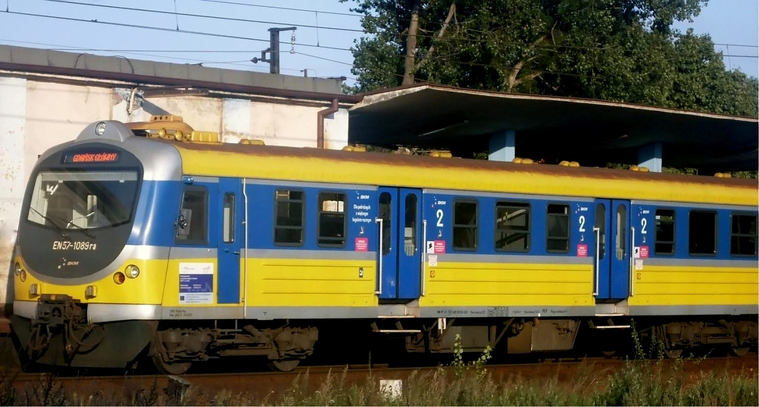 Motor coach of multiple unit EN57-1089ra of Trójmiejska SKM.